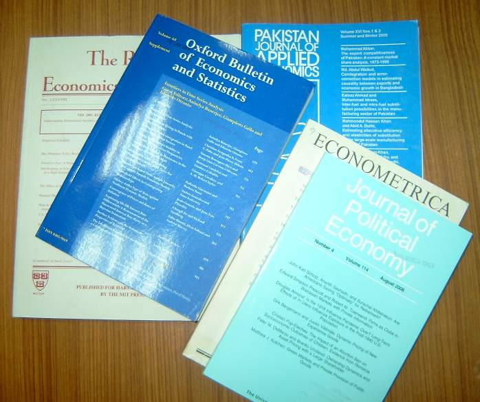 I've taken this pic, and now releases it to public domain. (M. Imran)